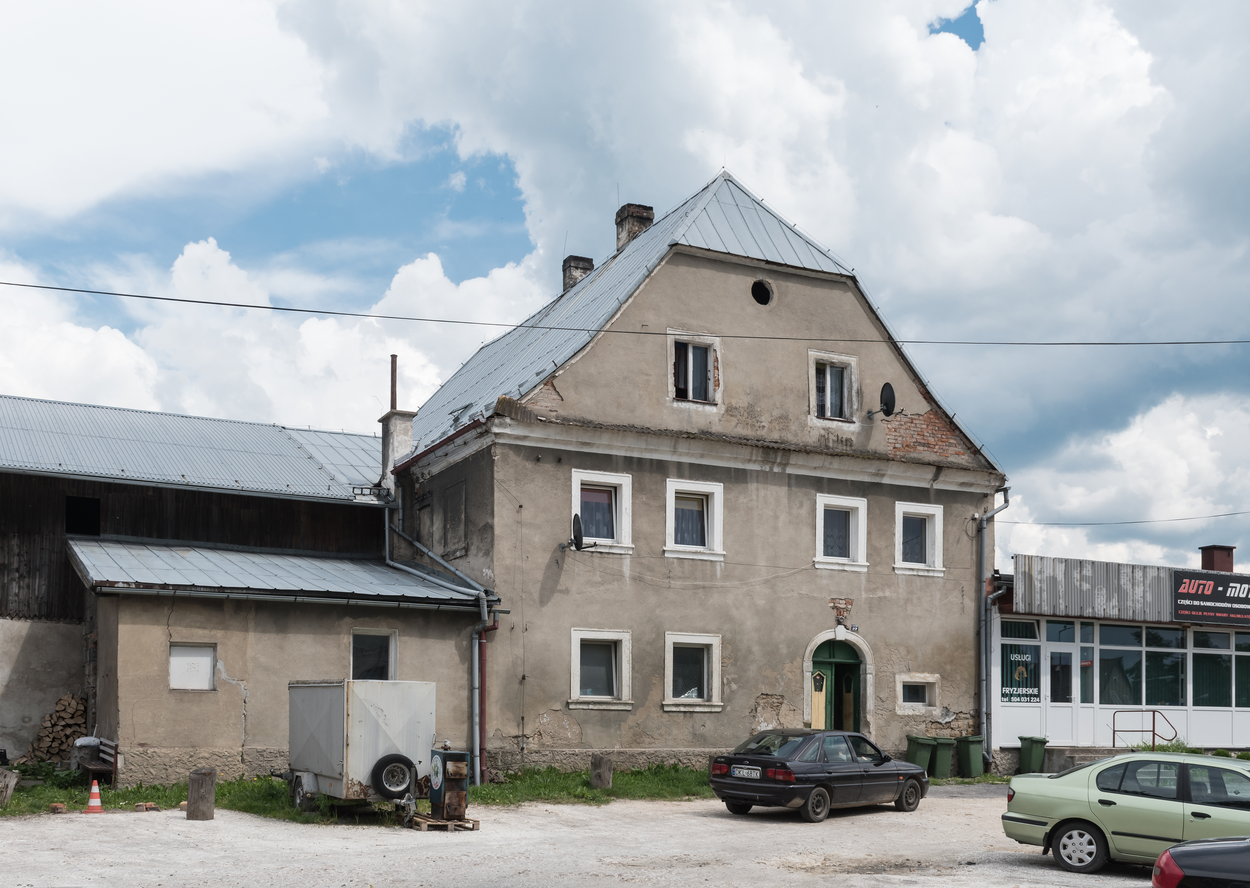 22 Międzyleska Street in Domaszków